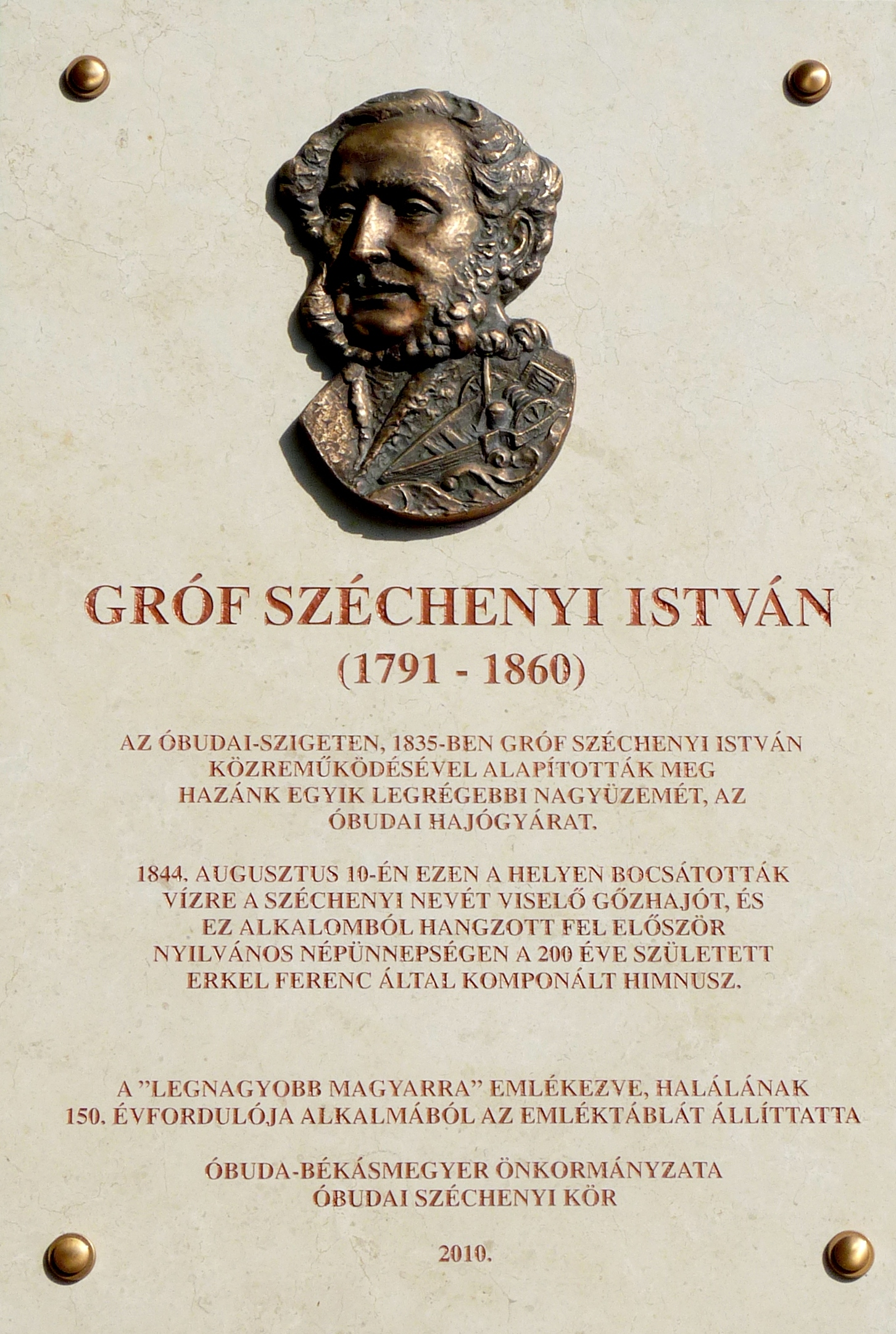 Commemorative plaque of István Széchenyi (1791-1860) Hungarian politician, theorist and writer on Óbudai-sziget („Old-Buda Island”) (Budapest, District III, Óbudai-sziget Building Nr 132). Author of the bronz relief: Mr. Géza Dezső Fekete. Inauguration: September 21, 2010.